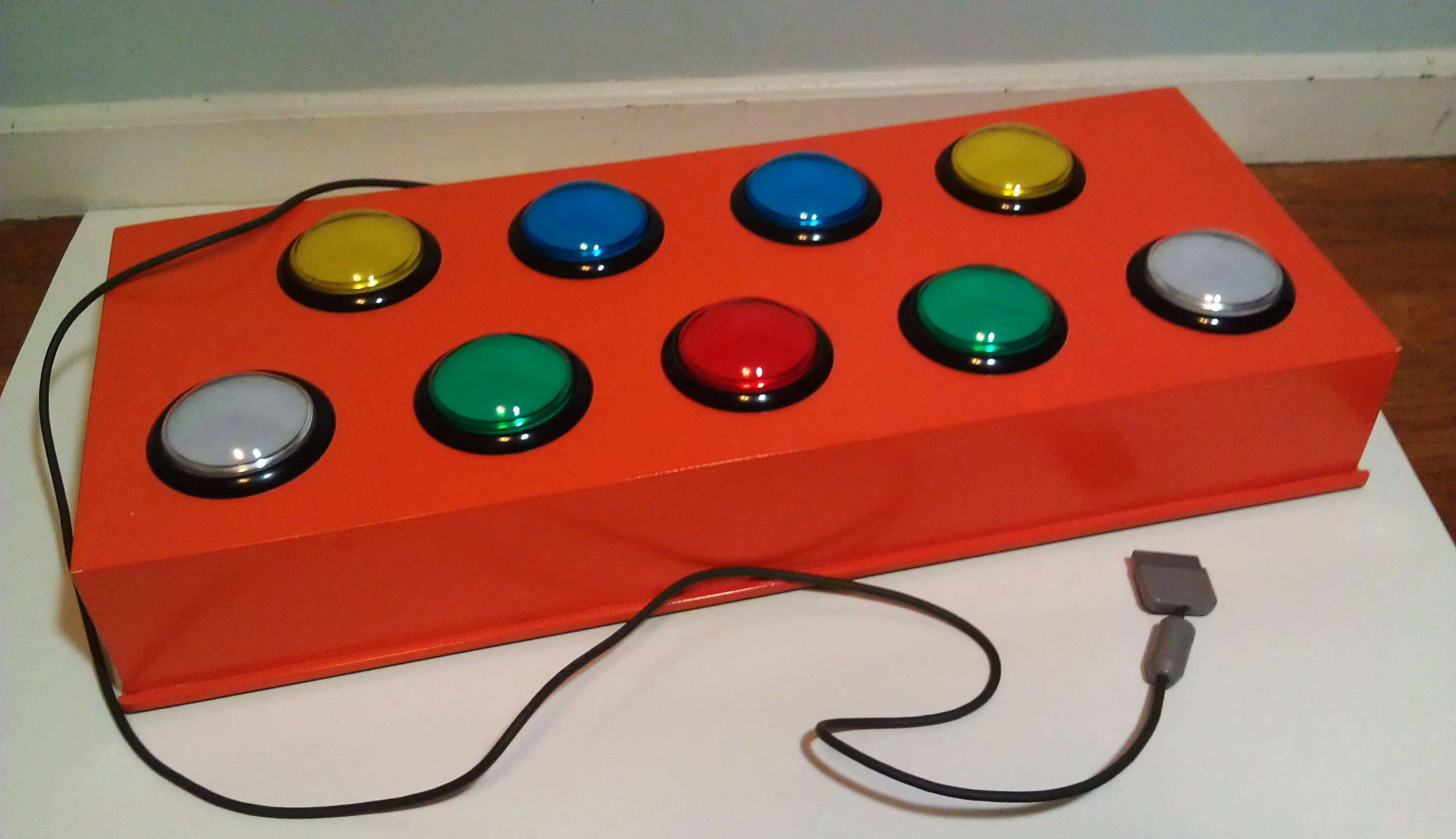 Photograph of a homemade Pop'n Music controller, the button layout and design clearly visible.